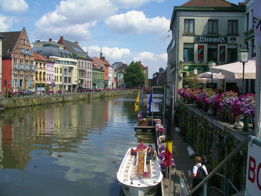 Riverside at Ghent at noon